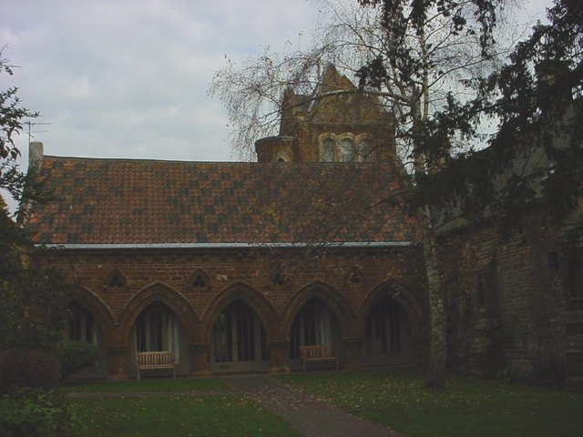 Hall Chapel This interesting little gem is tucked away in a corner. It makes good use of the local Northamptonshire ironstone and has an interesting roof tile pattern. The Great Tower with its attached circular tower staircase can be seen in the background.